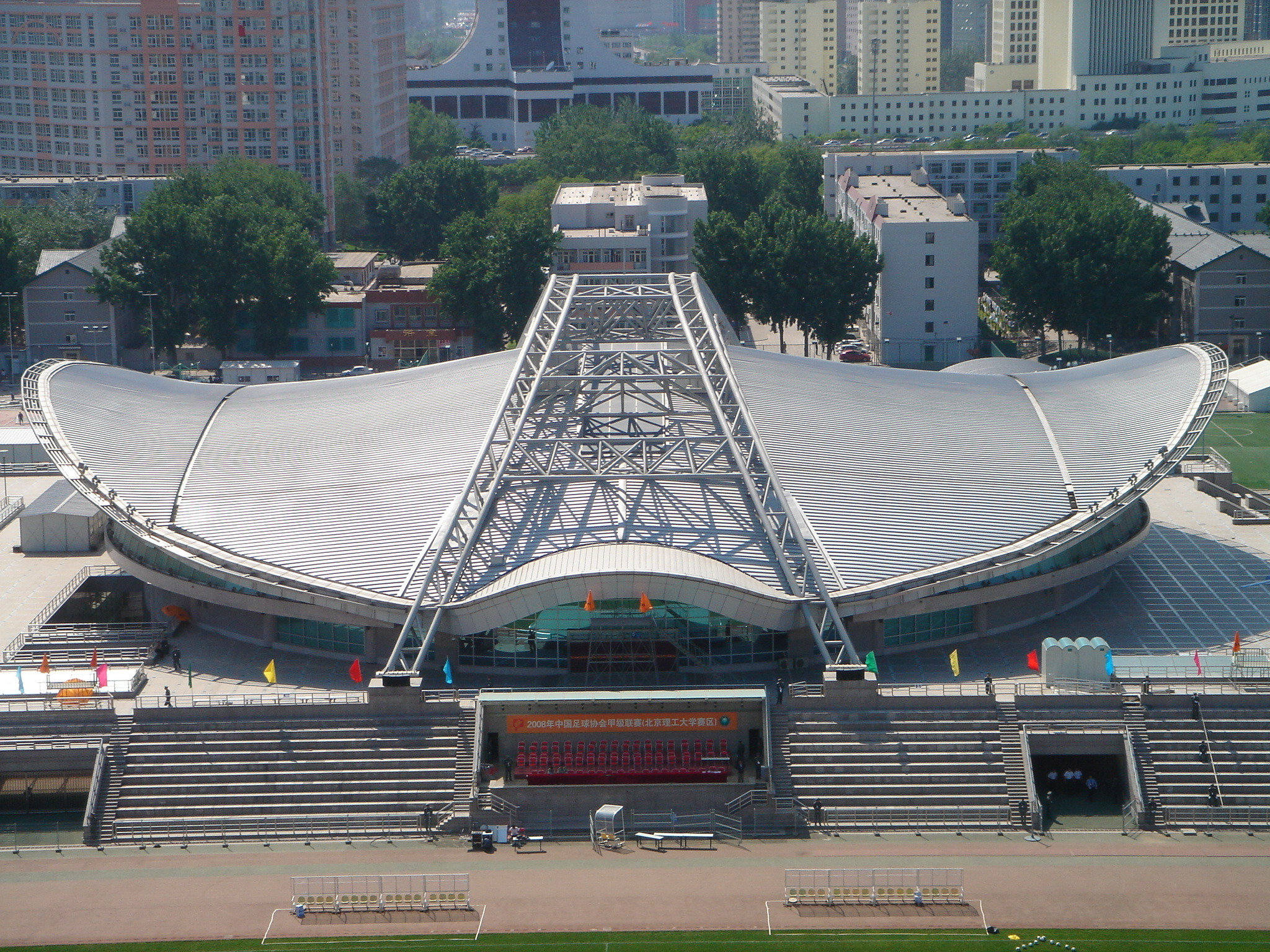 Stadium of the Beijing Institute of Technology, a venue of the 2008 Summer Olympics